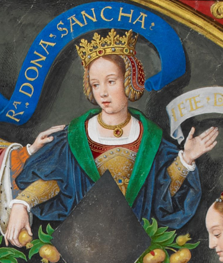 Sancha of Pamplona, queen of León and countess of Castile